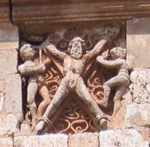 Church of San Andrés, in the municipality of Presencio, Burgos (Spain).